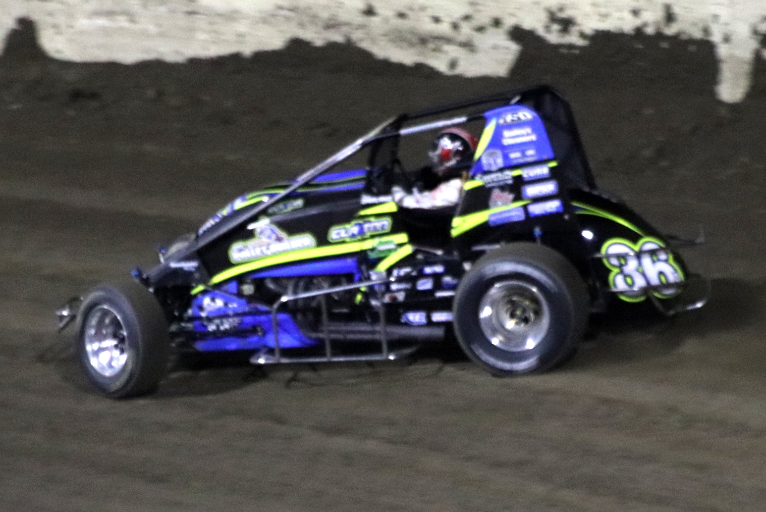 The wingless Sprint Car of Dave Darland at the 2018 Kokomo Klash at Kokomo Speedway.